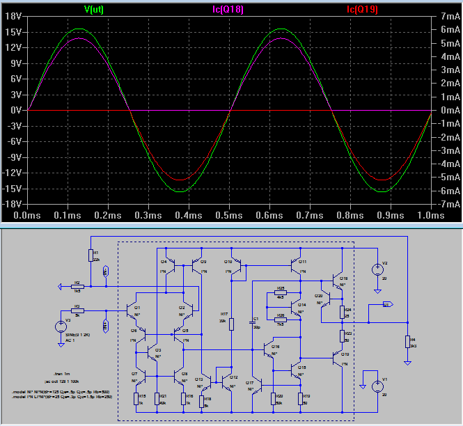 LM741 OpAmp non-inverting, Transient response